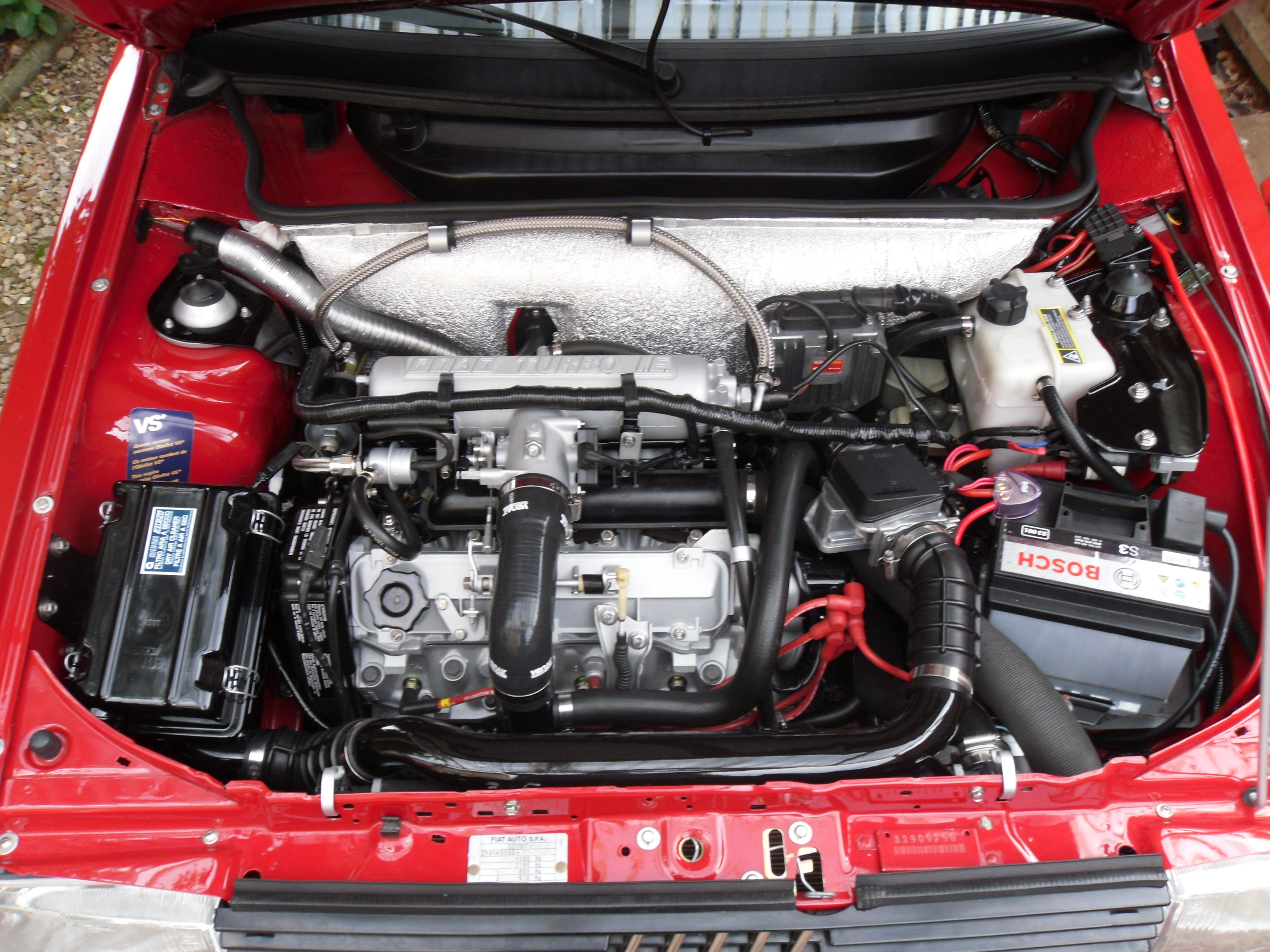 First series Fiat Uno Turbo i.e. engine bay from above